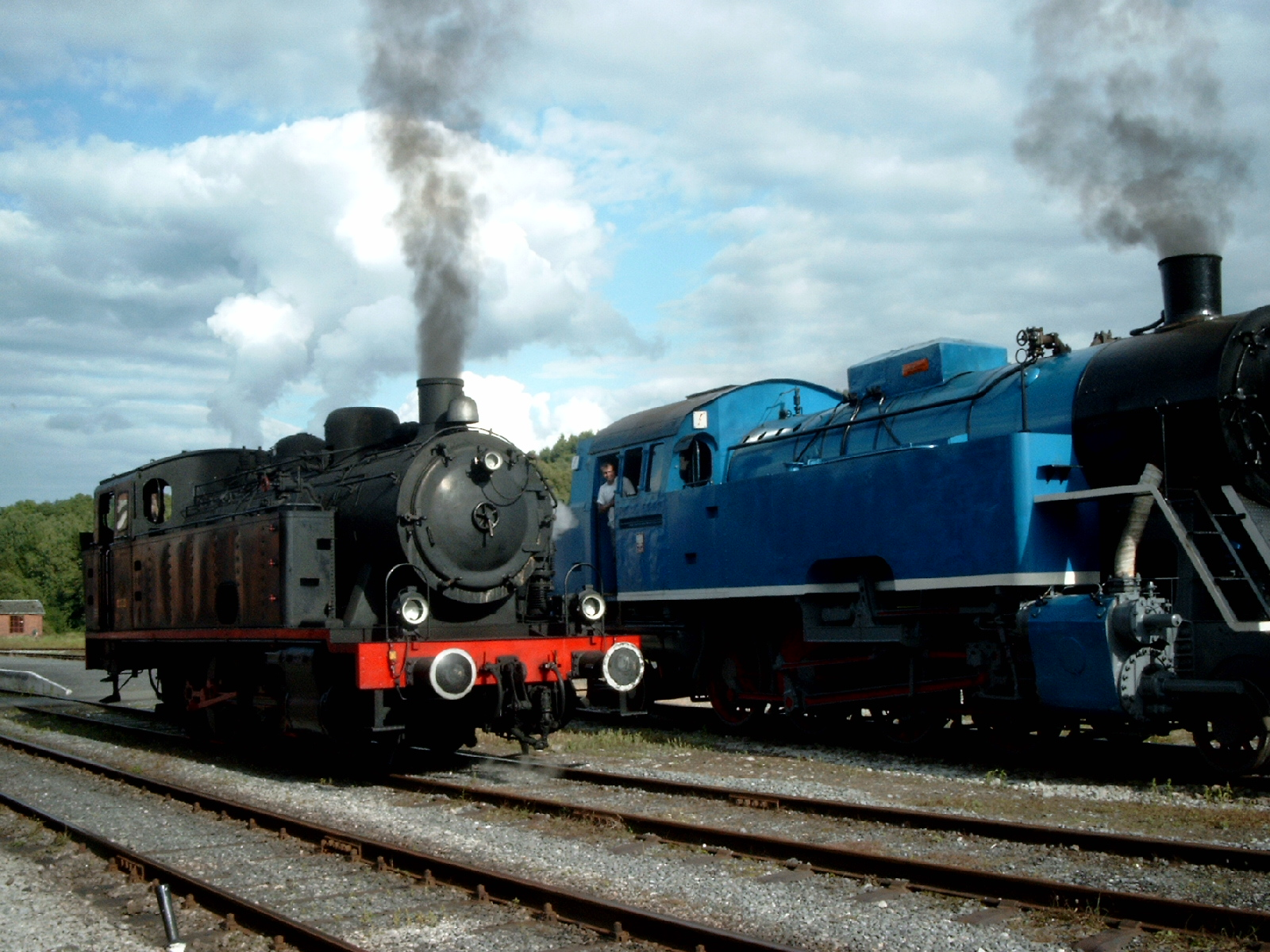 Steam locomotives at Treignes, Viroinval.